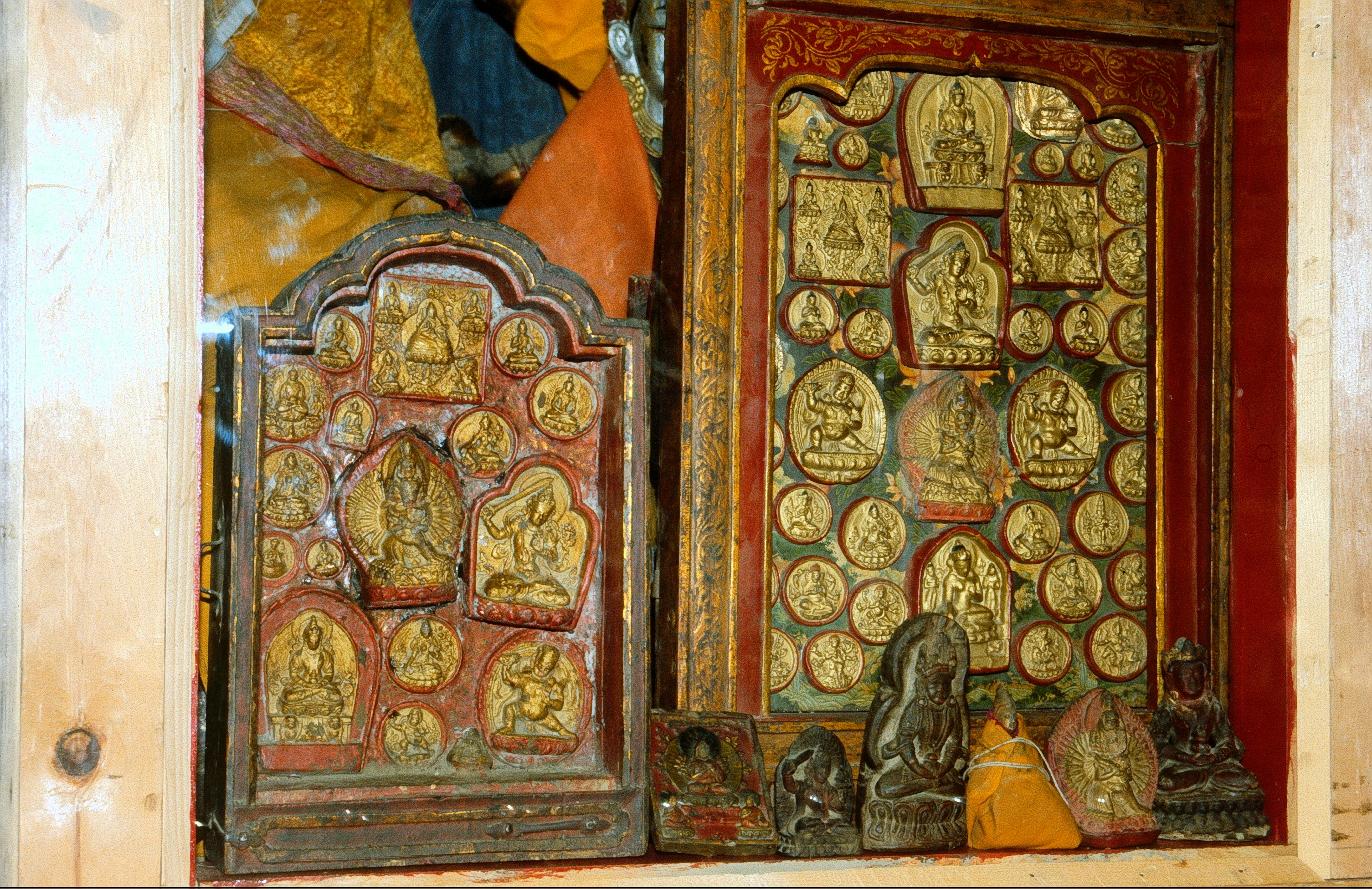 Detail inside Kursha gompa, Zanskar/Ladakh.